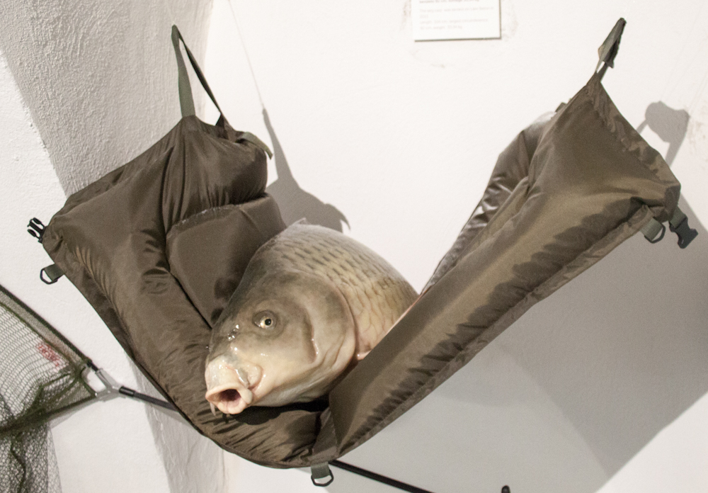 Record size carp,_Location - Lake Beton,_Hatvan; length - 104 cm, largest circumference - 92 cm, weight - 33,34 kglabel QS:Len,"Record size carp,_Location - Lake Beton,_Hatvan; length - 104 cm, largest circumference - 92 cm, weight - 33,34 kg" label QS:Lhu,"Rekordméretű ponty a hatvani Beton-tóból, hossz 104 cm, kerület 92 cm, súly 33,34 kg"